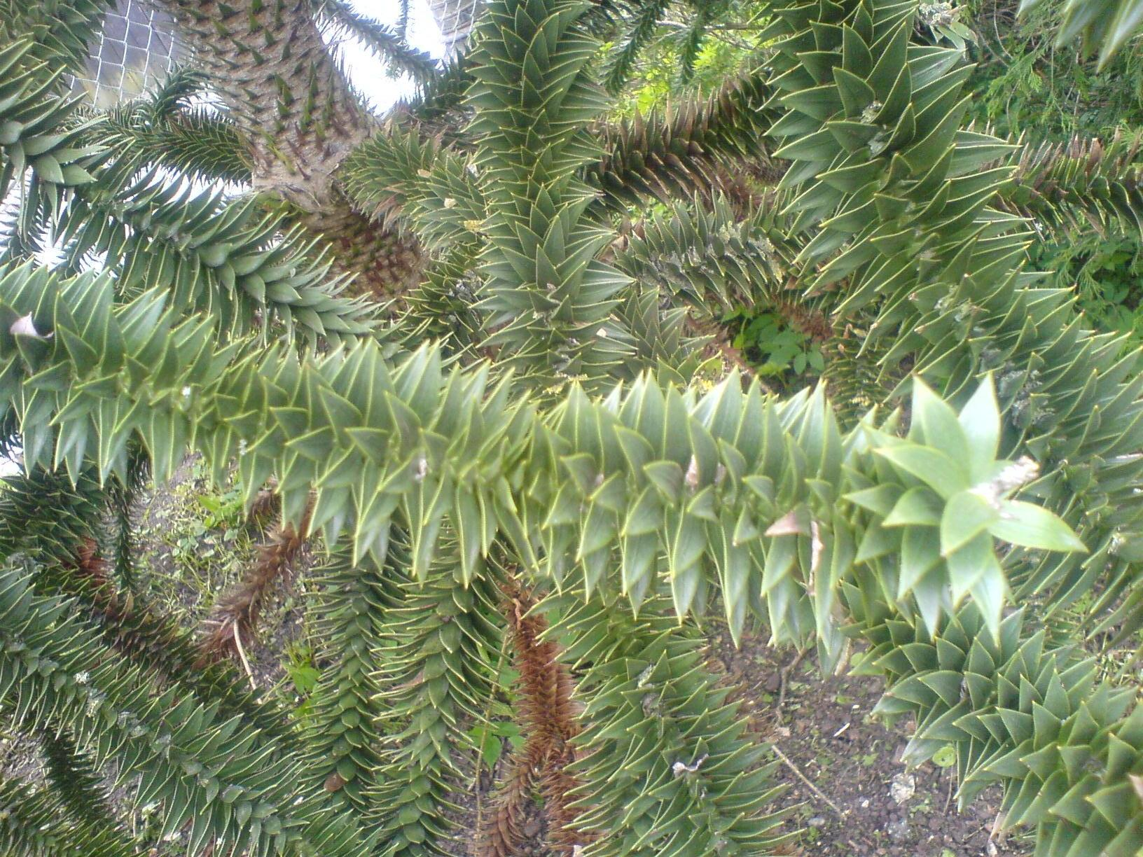 Araucaria araucana (Monkey-puzzle, Brödgran) in Visby botanical garden, Sweden